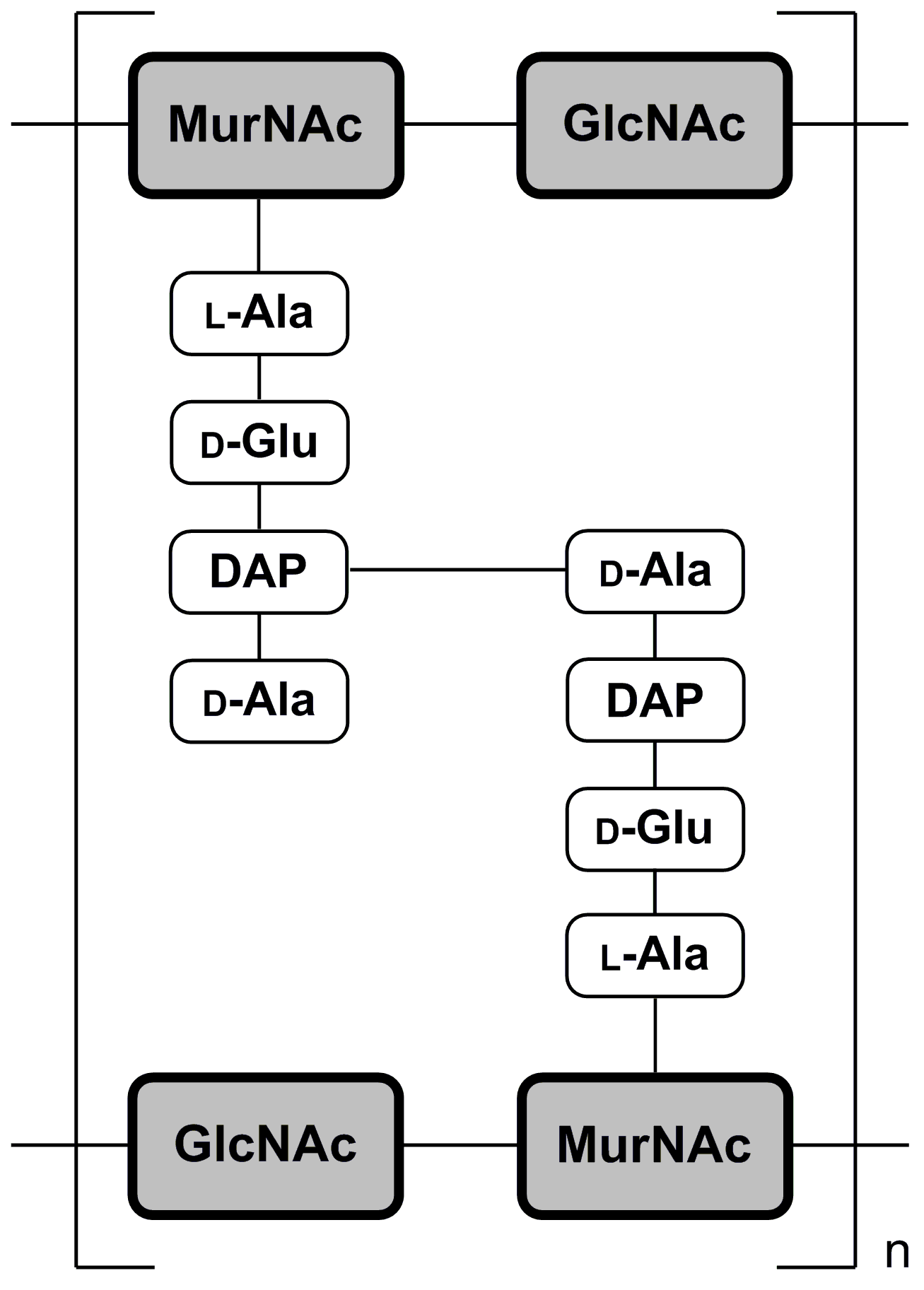 Peptidoglycan from Eschericia coli; Peptidoglycan, consists of alternating residues of β-(1,4) linked N-Acetylmuramic acid and N-Acetylglucosamine